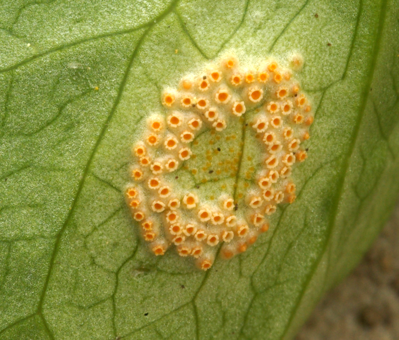 Aecia of Puccinia sessilis on Arum maculatum leaf